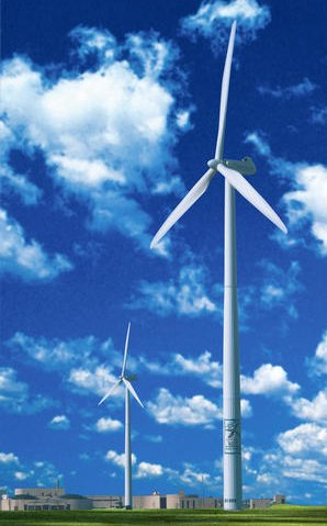 Wind Turbines Zephyr and Freedom in Moorhead, Minnesota Energy Information Administration